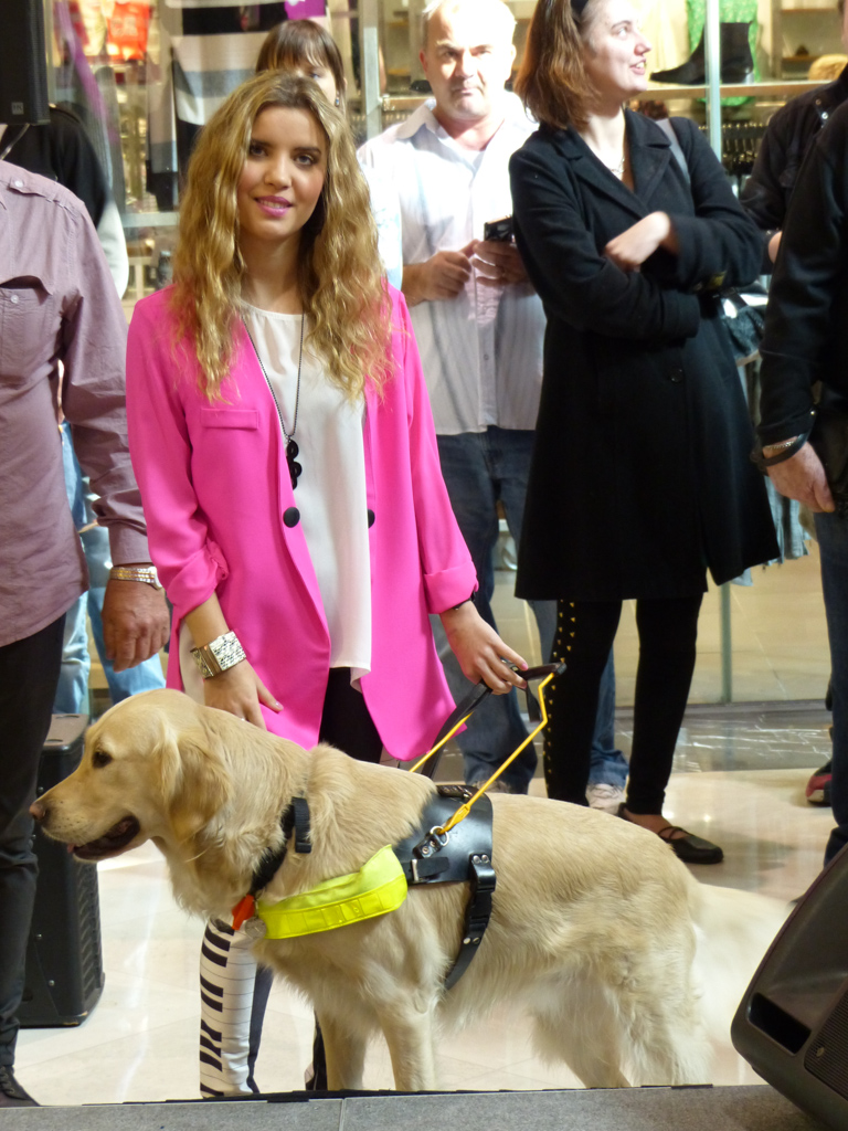 Rachael and Ella at Marion shopping centre 11-May-2014, just before Rachael's performance